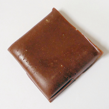 Red pitch, used in jewellery and silversmithing